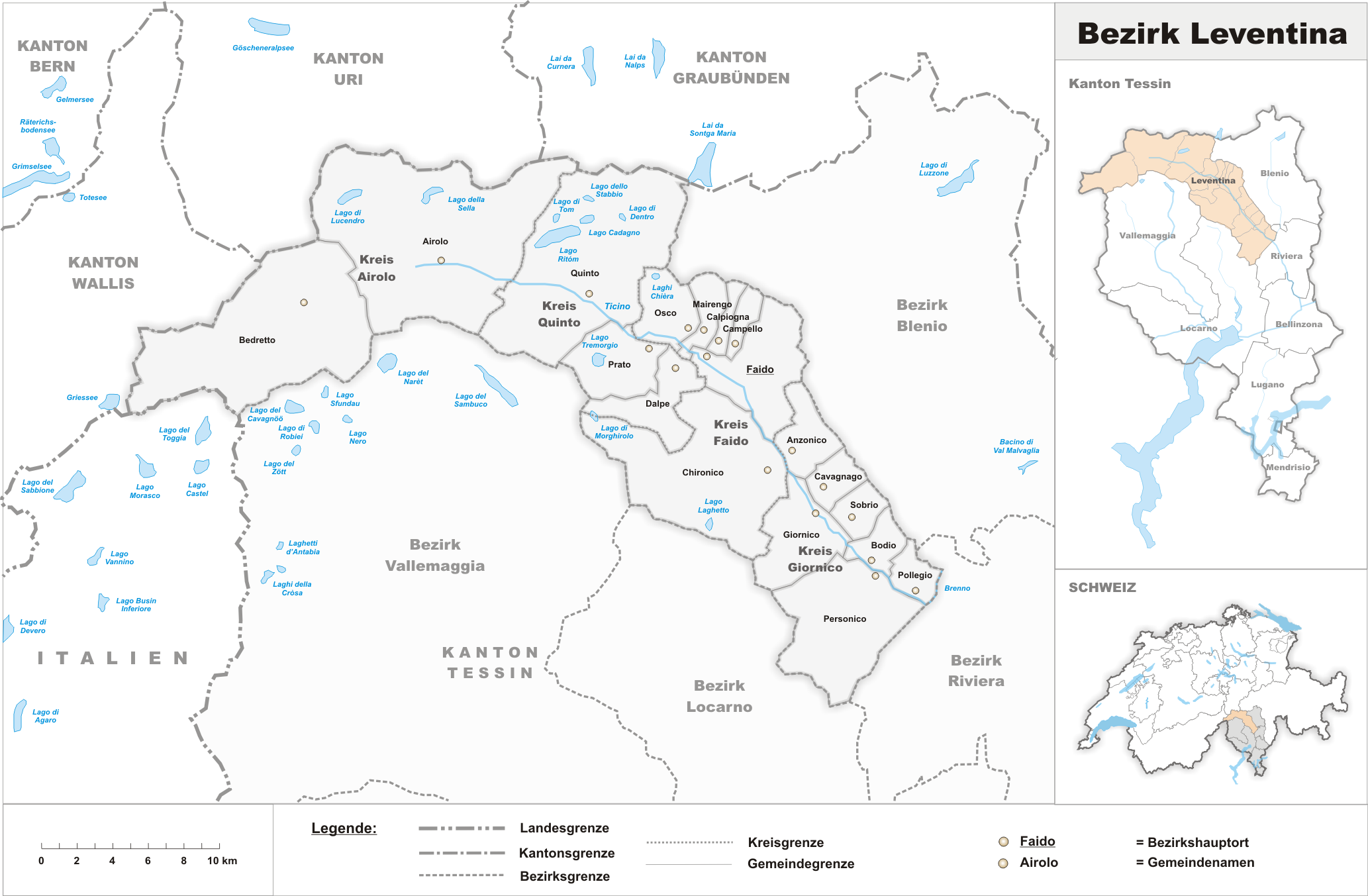 Municipalities in the district of Leventina